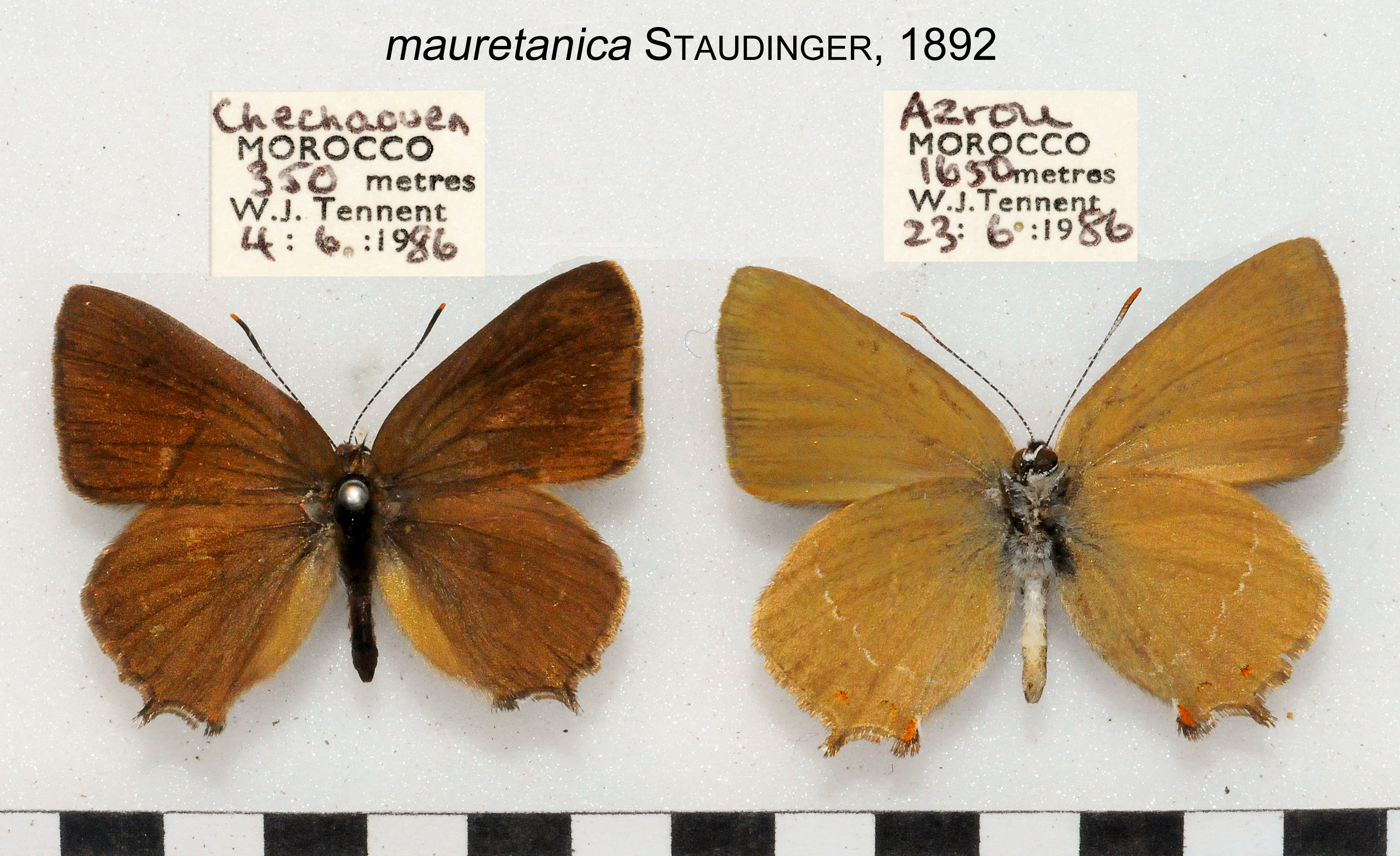 Satyrium esculi mauretanica, MOROCCO, Alan Cassidy photo.